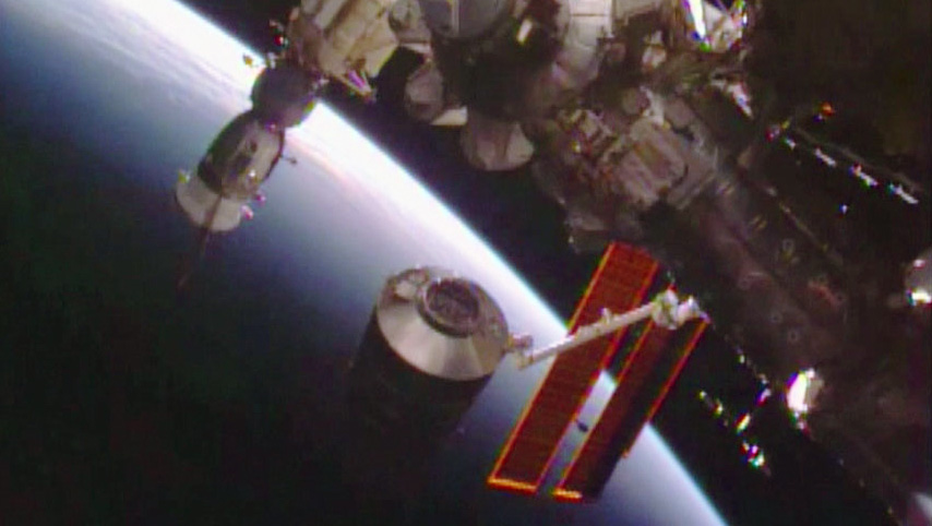 The Permanent Multipurpose Module is in the grips of the Canadarm2 robotic arm during its relocation from the Harmony module to the Tranquility module Wednesday morning.